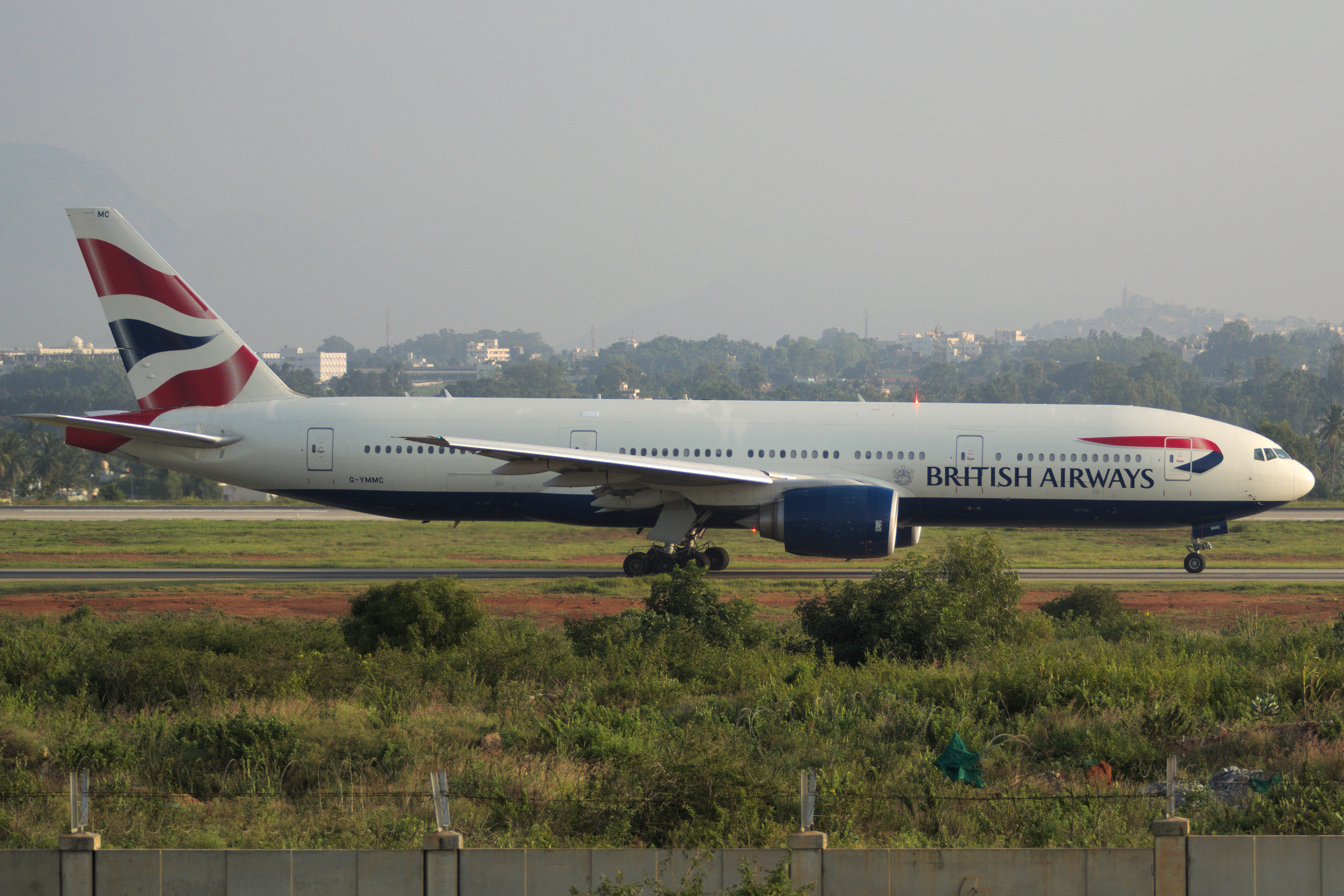 British Airways Boeing 777-200ER registered G-YMMC at Kempegowda Intl Airport Bangalore